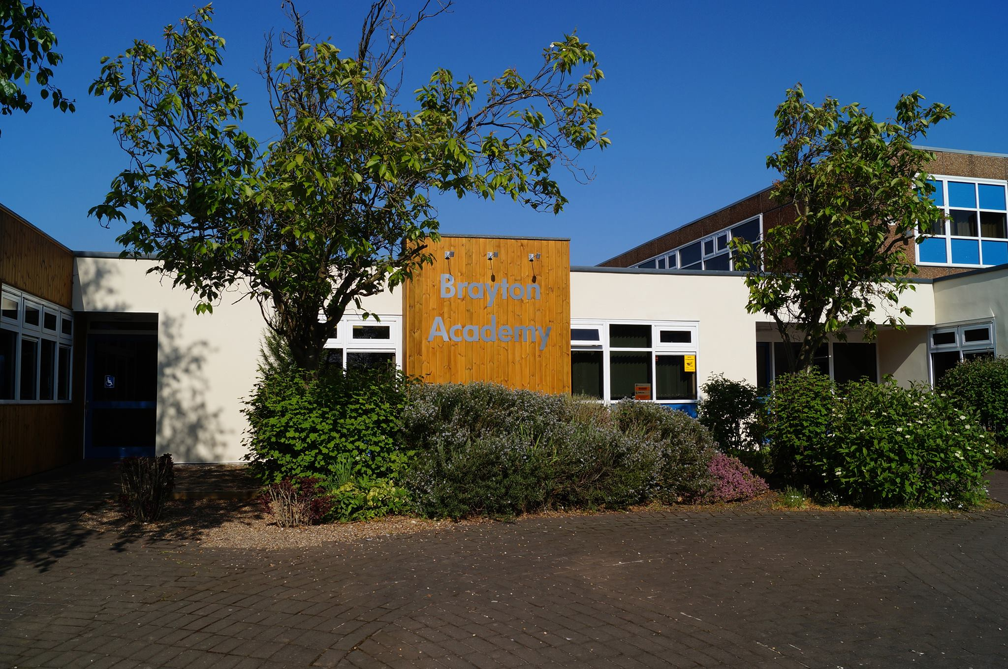 Brayton Academy Entrance in 2018